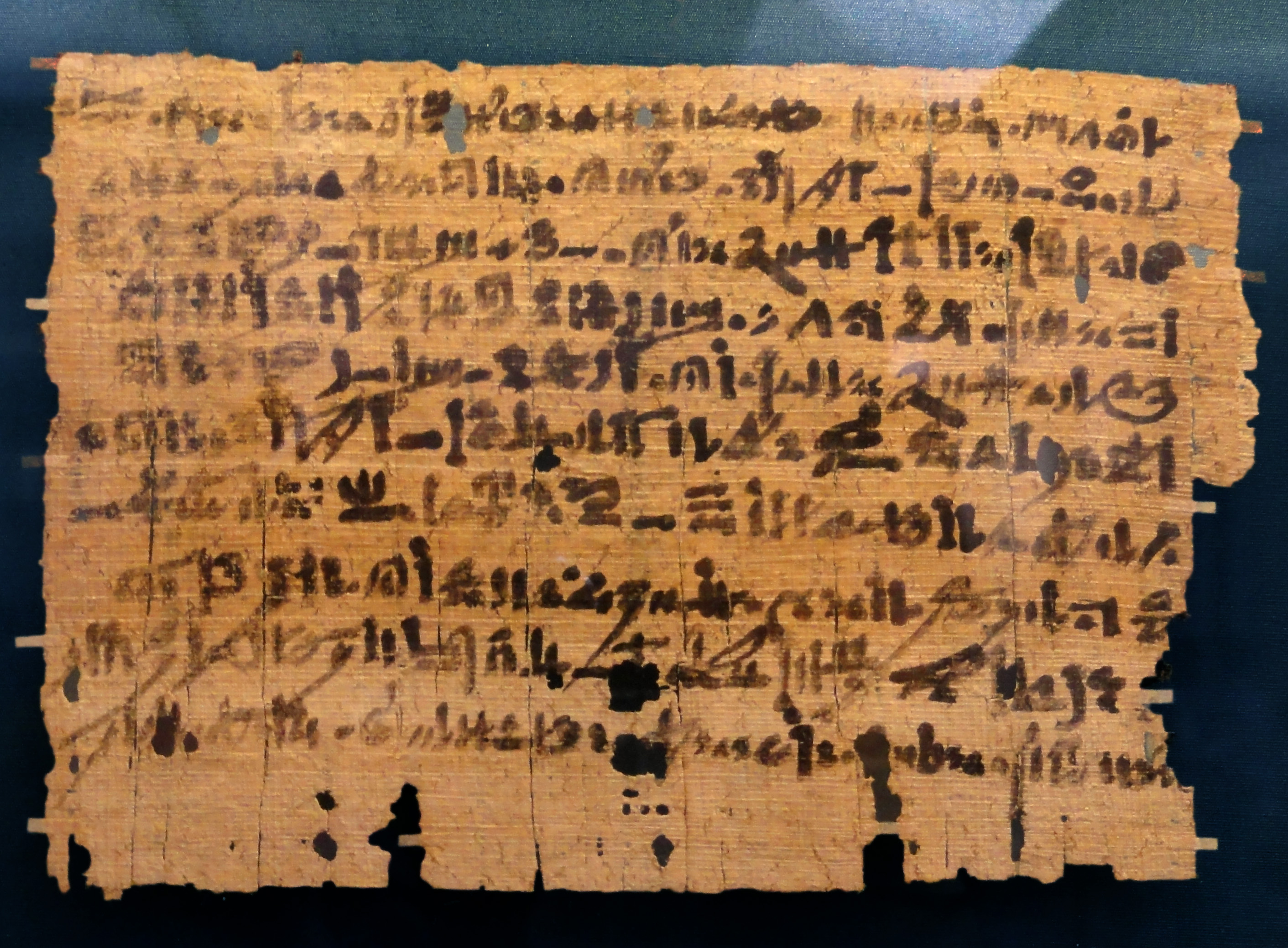 EA10800.